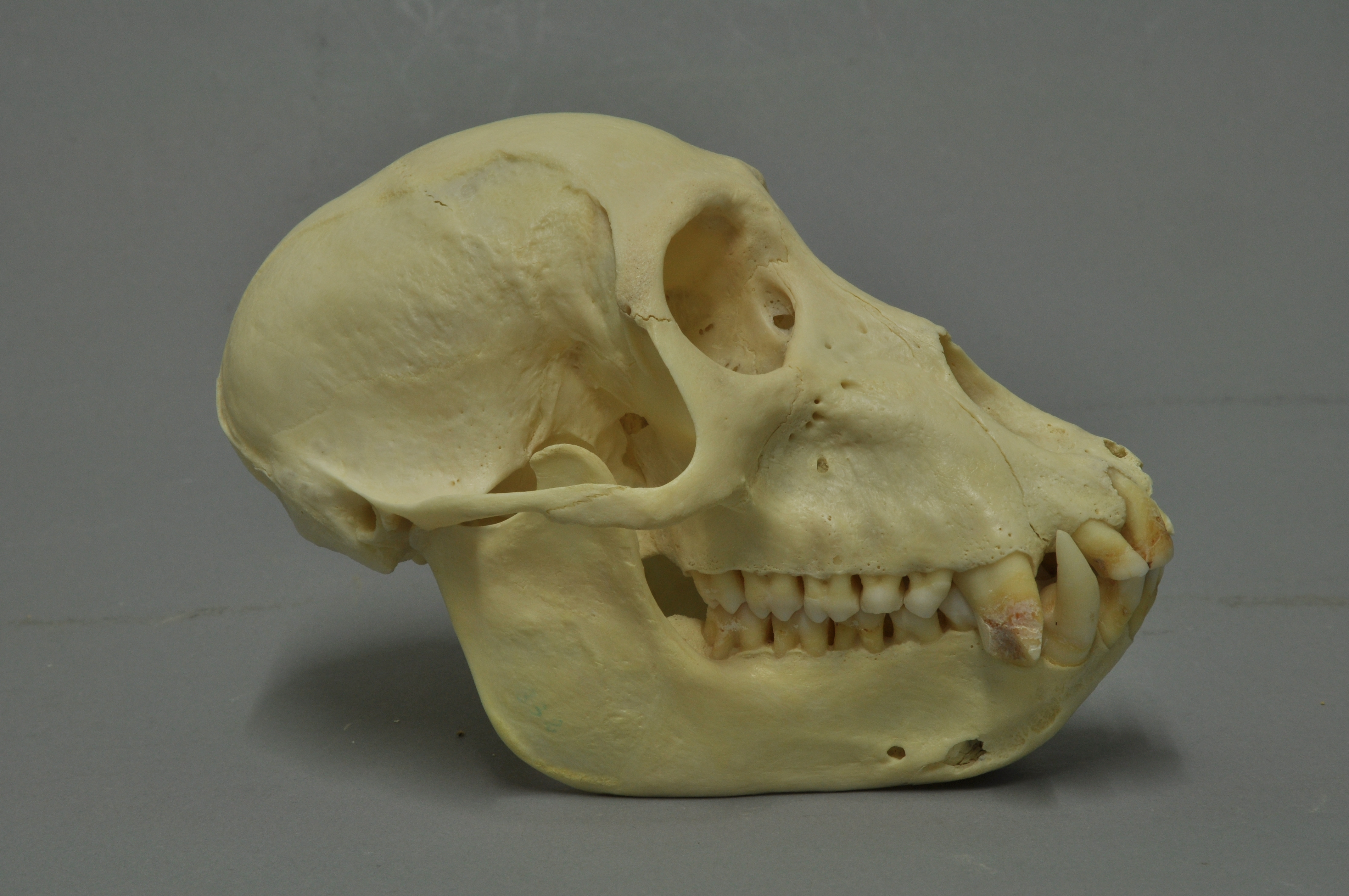 Black colobus Colobus satanas, skull, Coll. Museum Wiesbaden